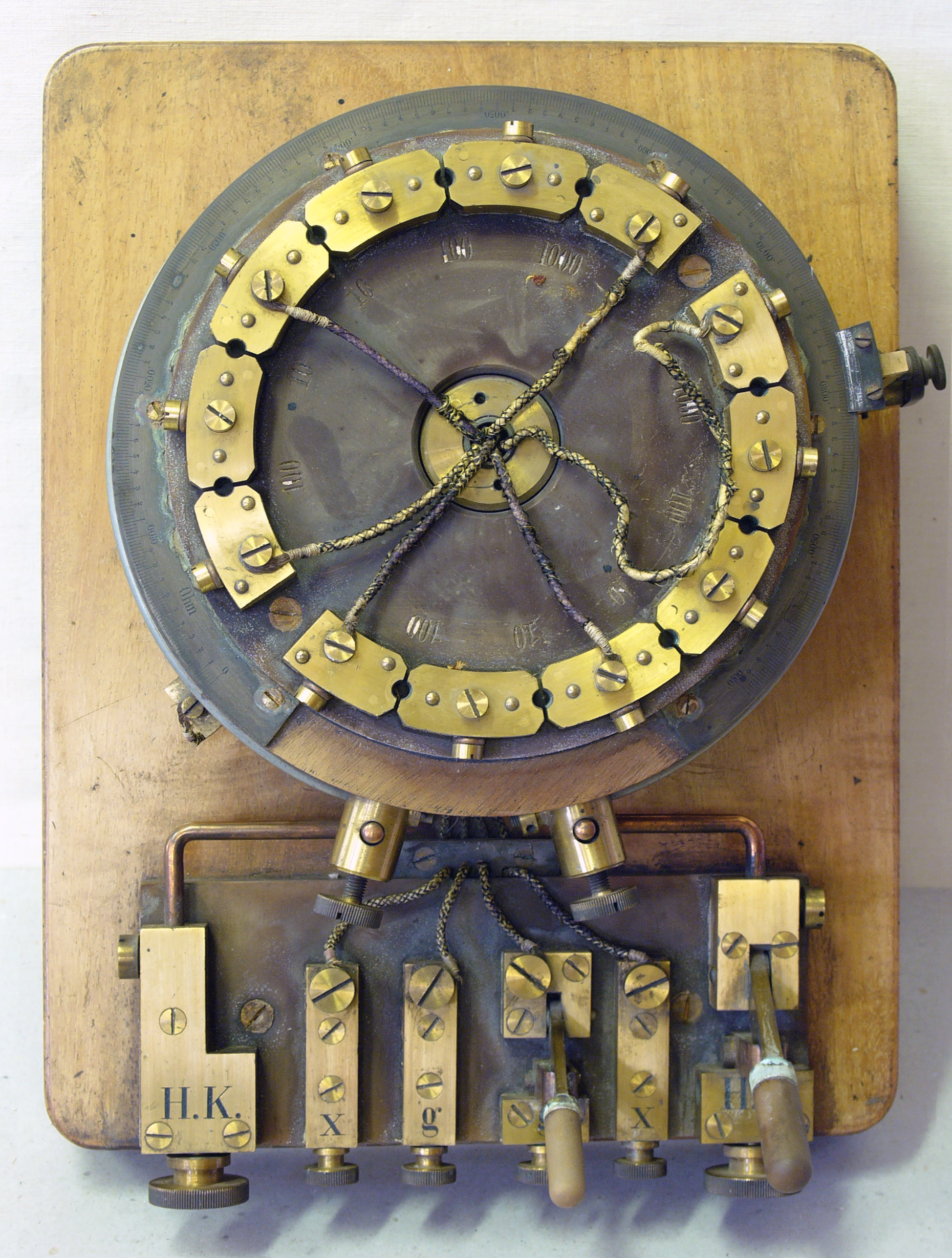 Rheostat from around 1900